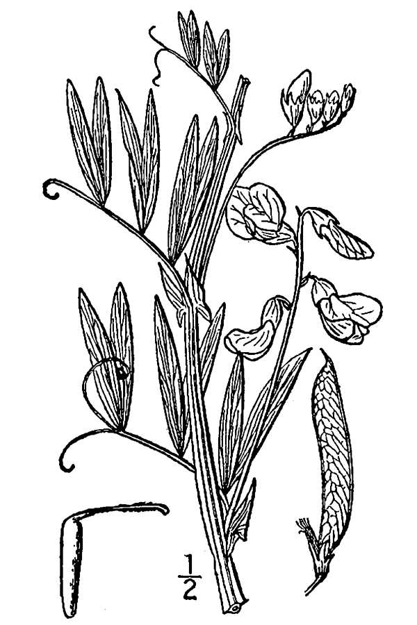 Lathyrus palustris